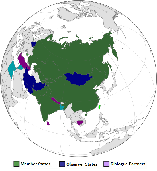 Map of the Shanghai Cooperation Organisation